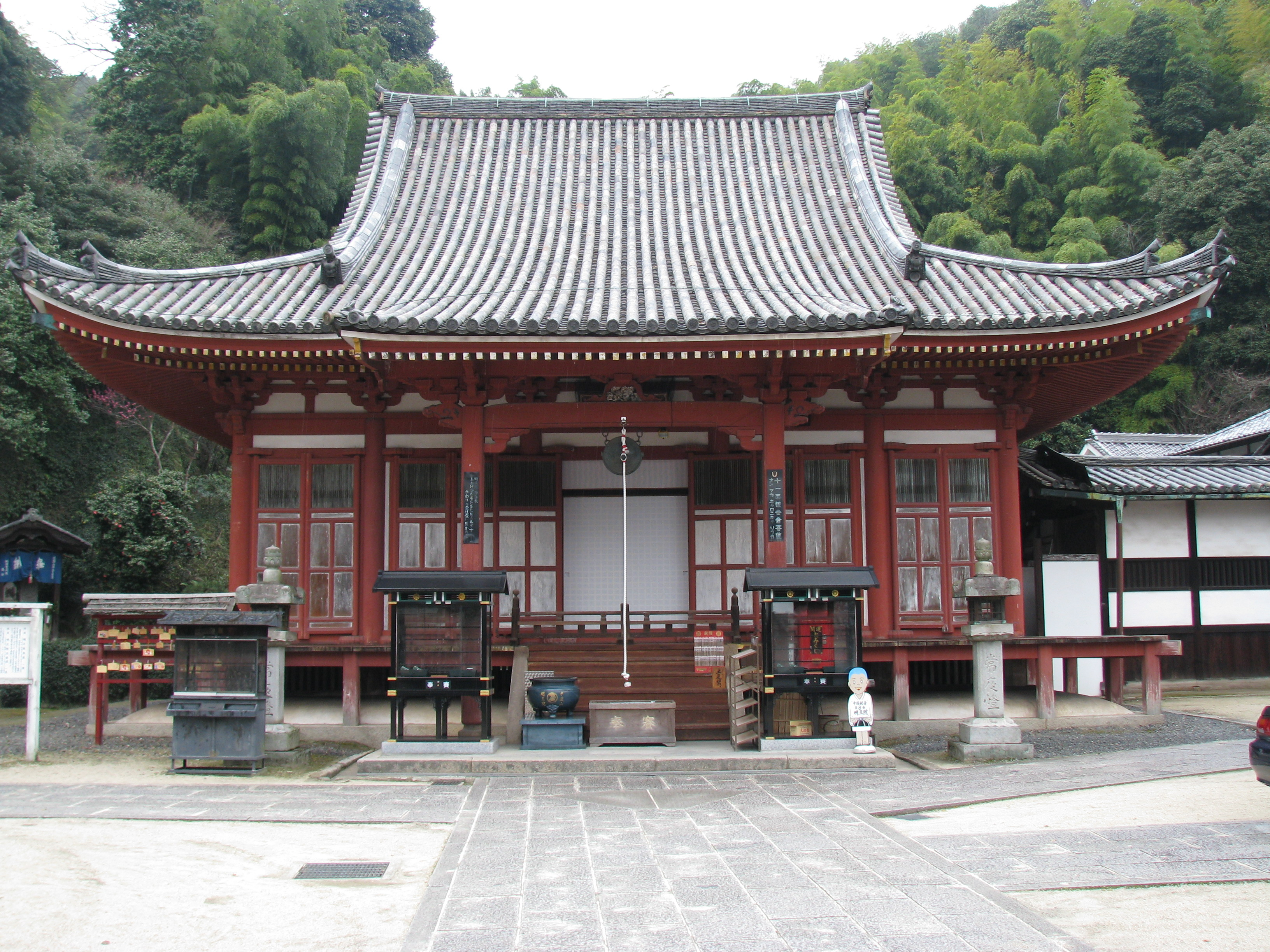 Myôô-in Hondô (Main hall)